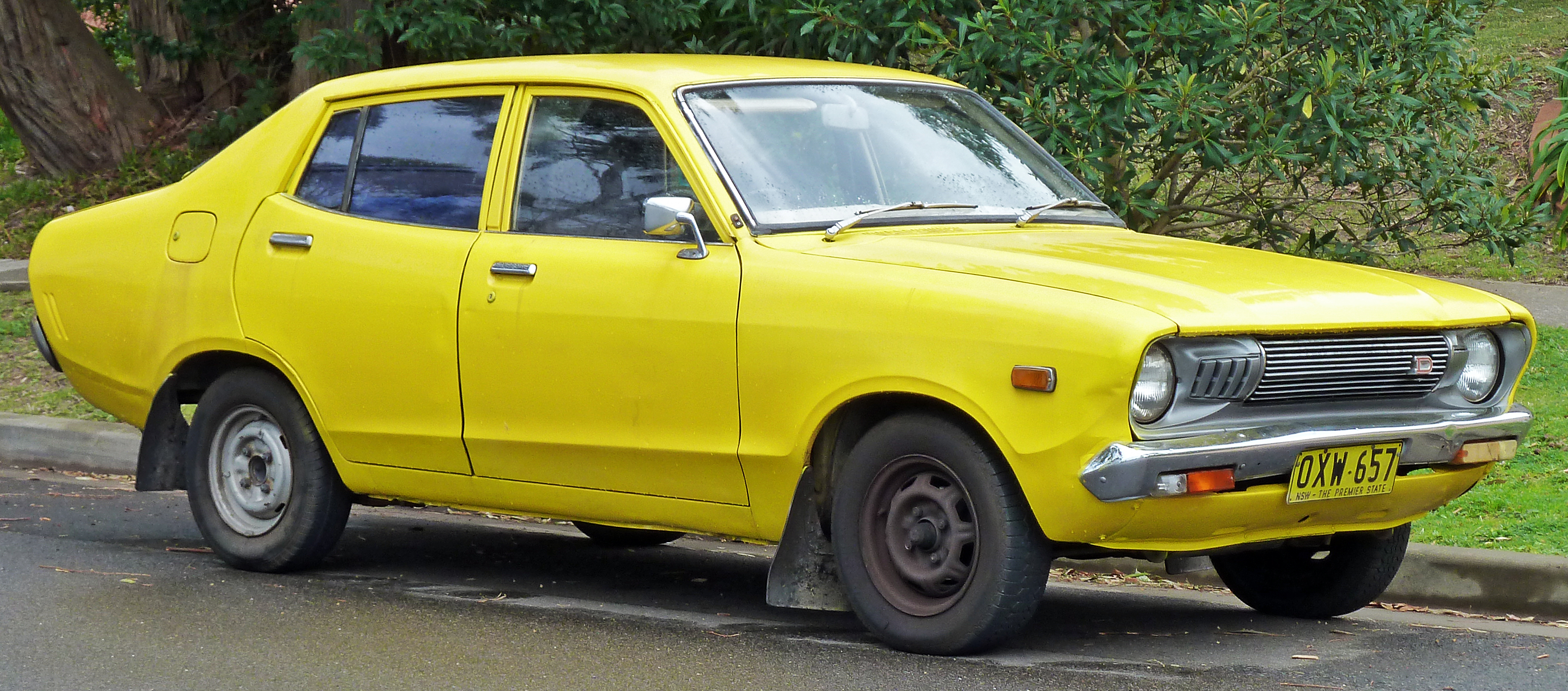 1974 Datsun 120Y (B210) sedan. Photographed in Gymea, New South Wales, Australia.